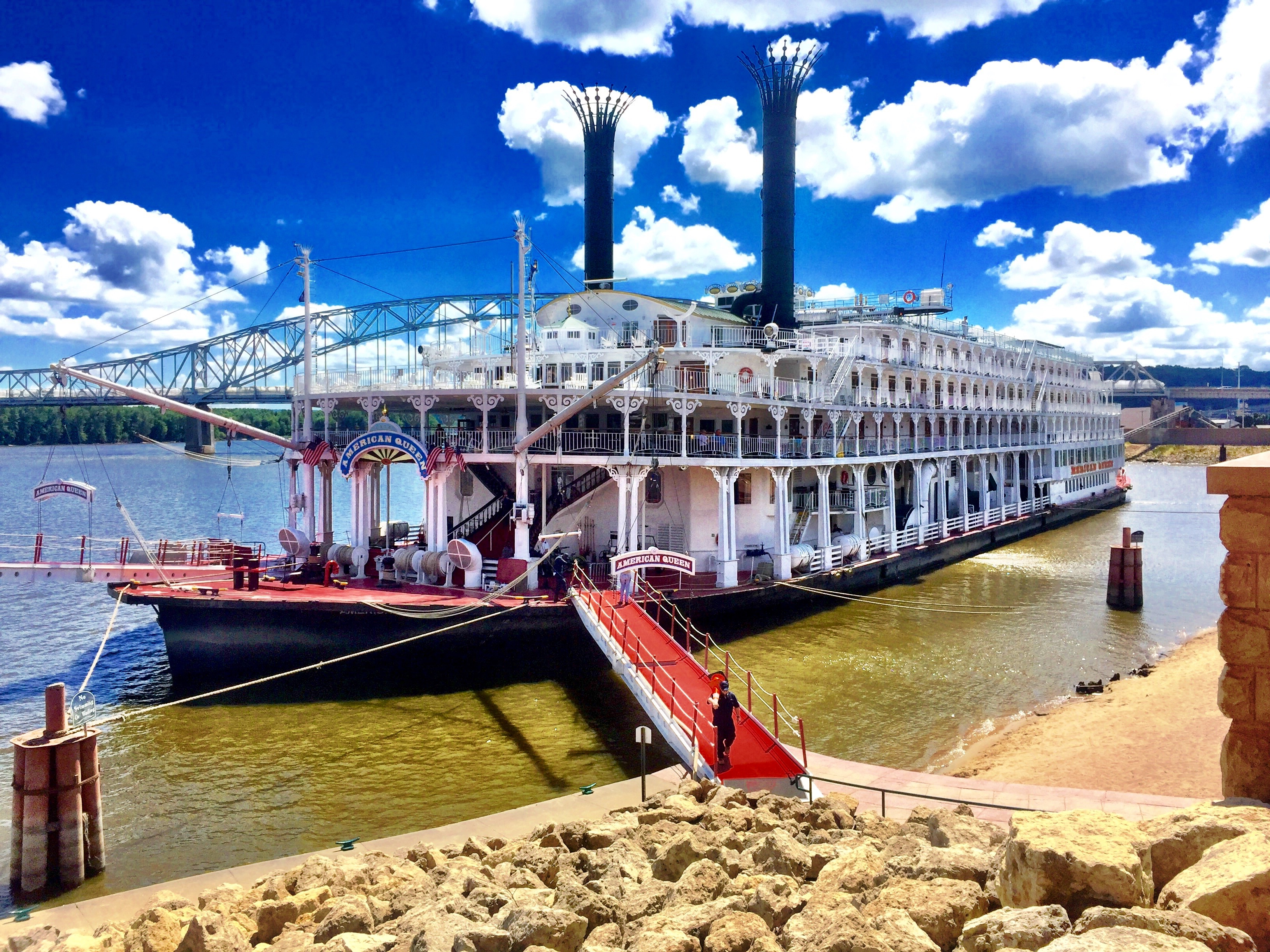 The American Queen Visits the Port of Dubuque, Iowa in August of 2015.